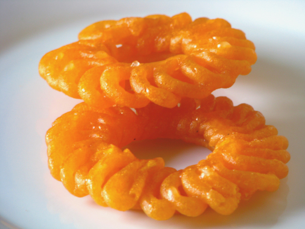 Jalebi